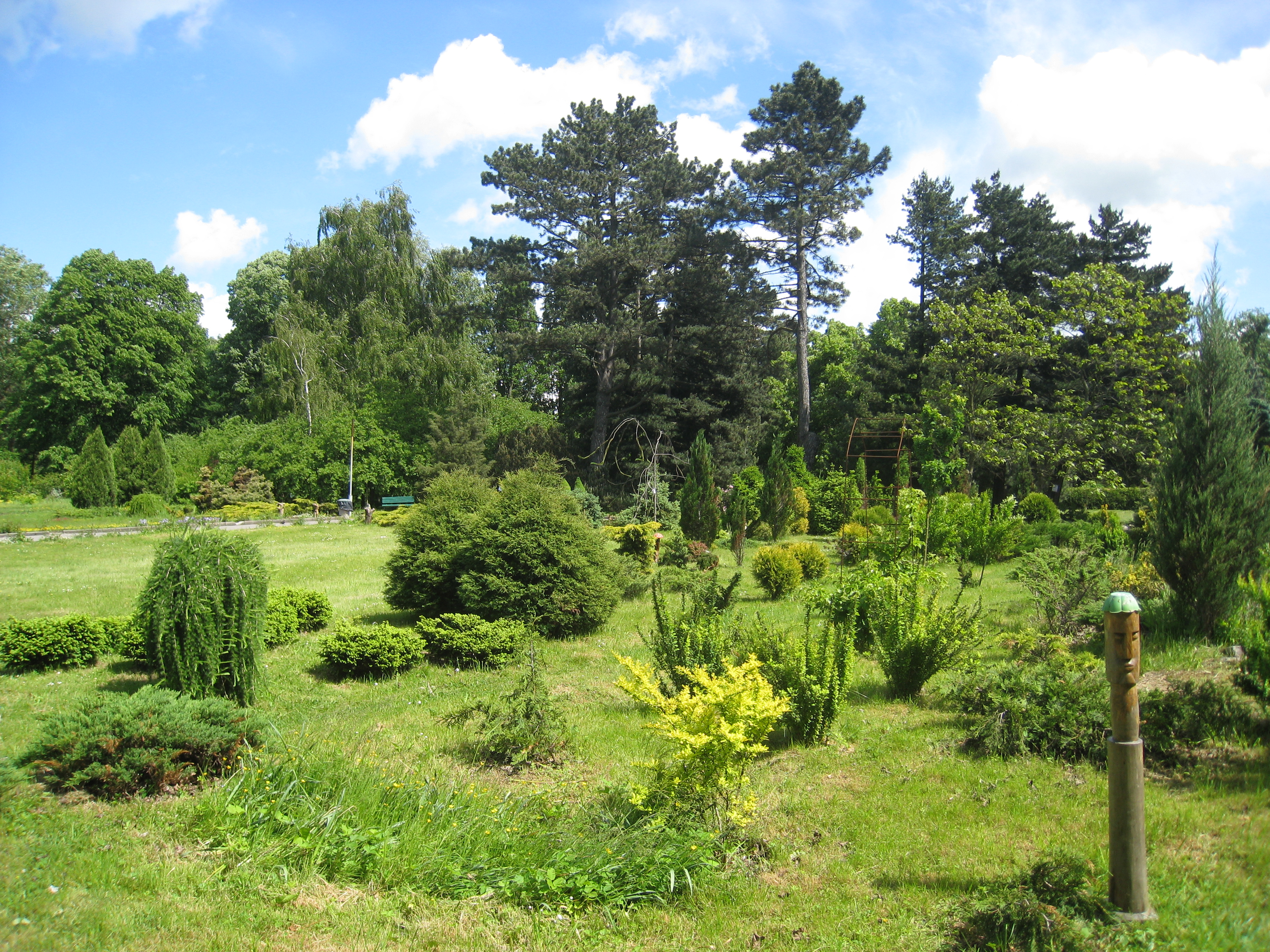 bruish